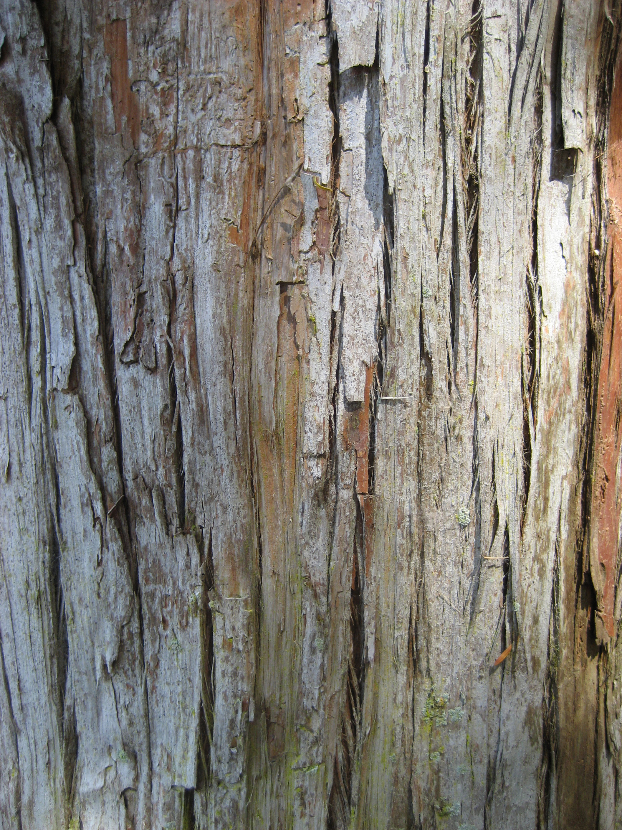 bark of Tōtara, Podocarpus totara, Auckland, New Zealand